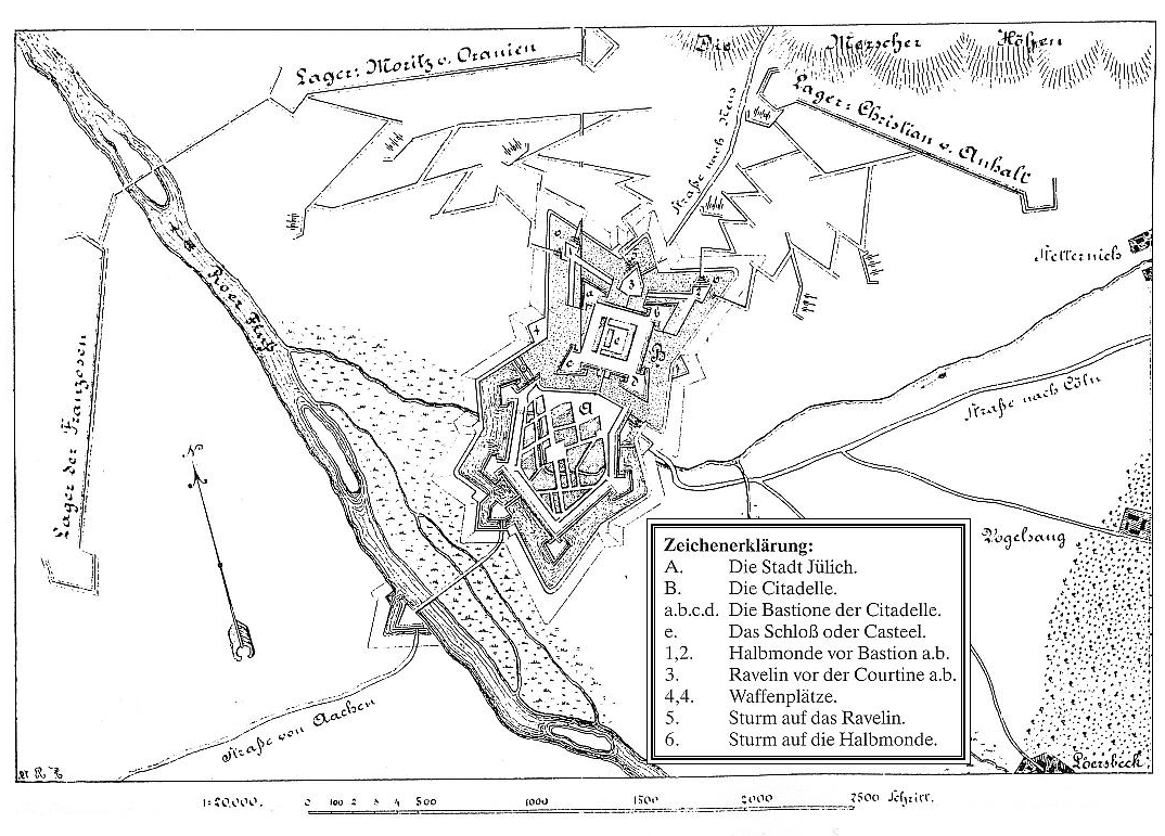 Simplified plan of the siege of Jülich in 1610